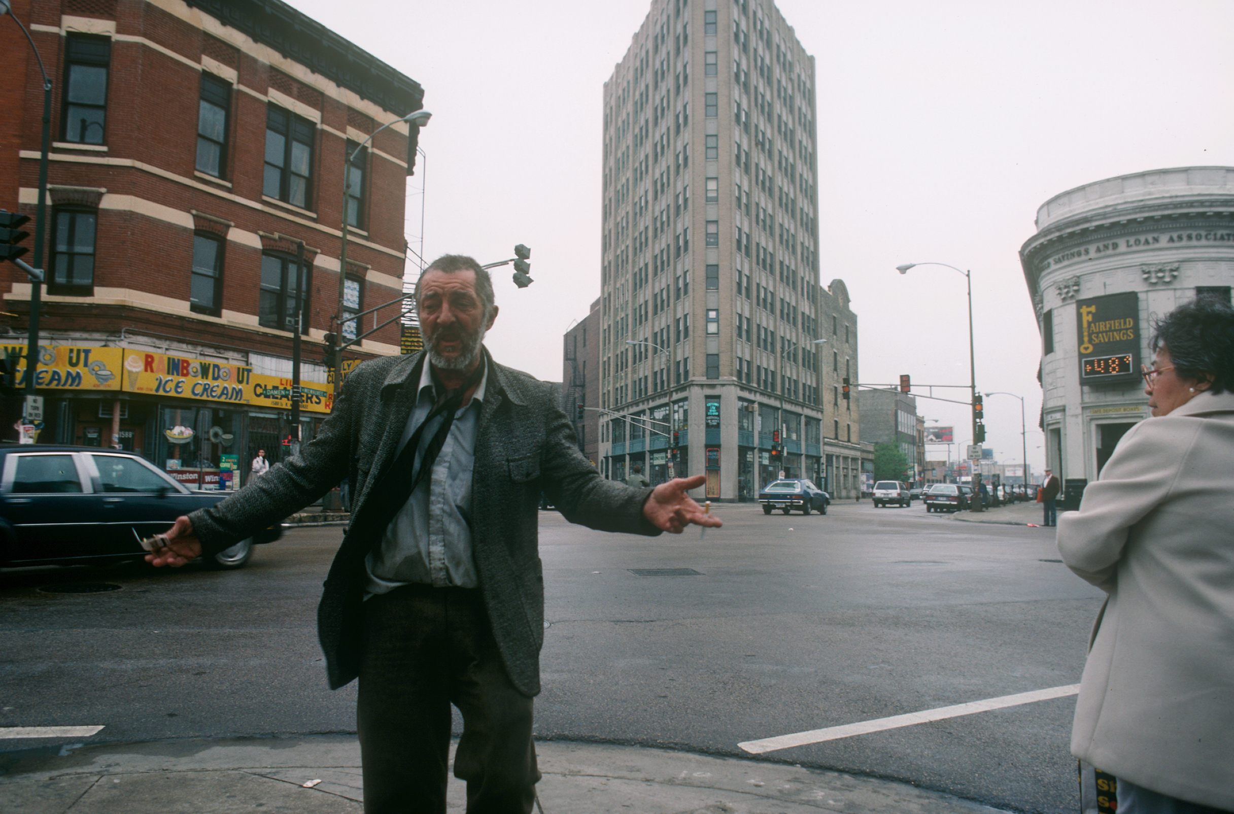 This photograph is part of the extended photographic essay "Chicago in the Reagan Era" by Jeff Wassmann.